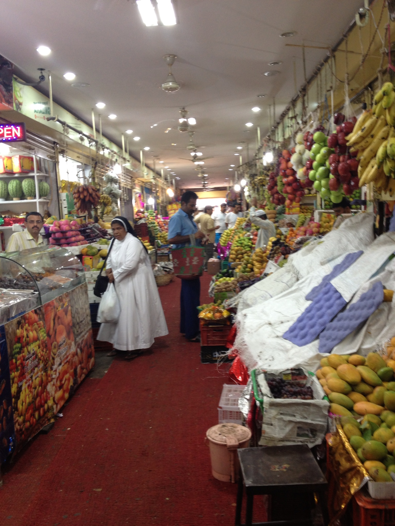 A view of one of the sections of Bangalore's Russel Market.